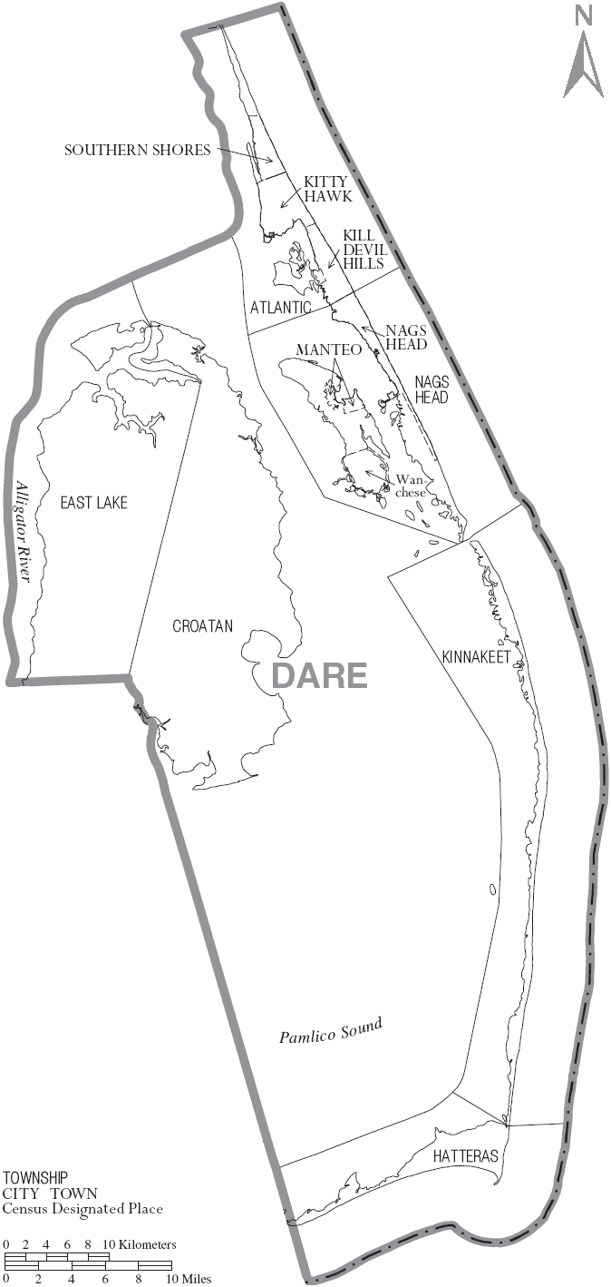 Map of Dare County, North Carolina, United States with township and municipal boundaries